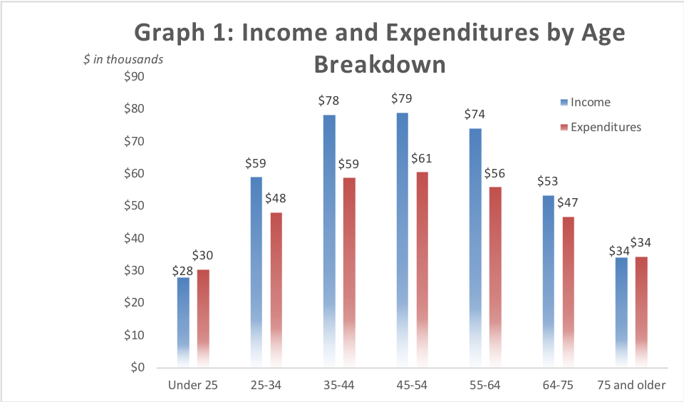 Graph 1 depicts the income and expenditures of US Citizens in 2013.[1]